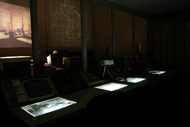 Operations center in the Central Component Headquarters 14 (Bunker Fuchsbau) of the National People´s Army Air Force.